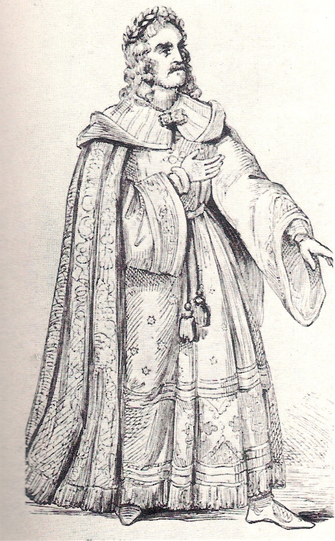 Tenor Josef Aloys Tichatschek (1807-1886) as Cola Rienzi at the première of "Rienzi" by Wagner.